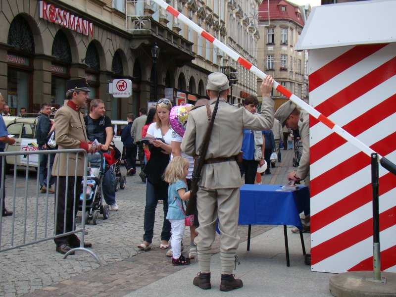 Recreación da fronteira entre Galicia e Prusia, Bielsko-Biała